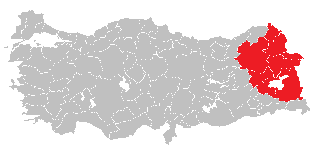 Traditional settlement areas of Azerbaijanis in Turkey